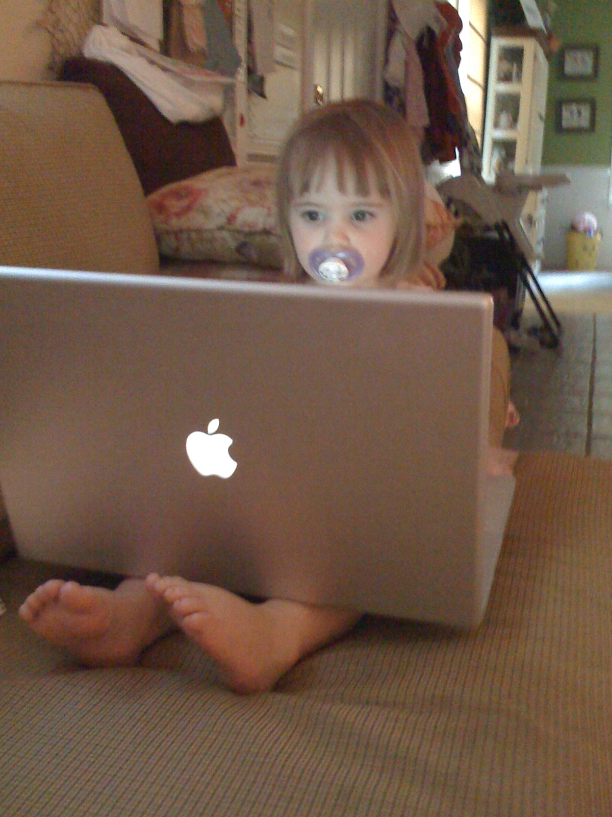 Child with MacBook. The original caption was "Hoping computer skillz run in the family."